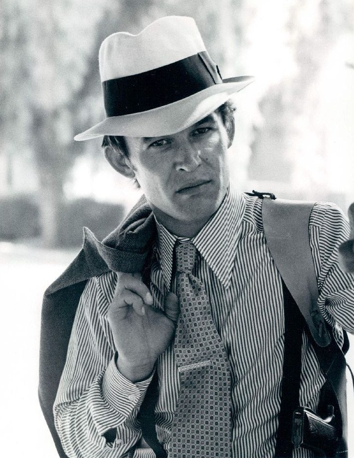 Canadian (german-born) actor Paul Koslo - publicity still (cropped)